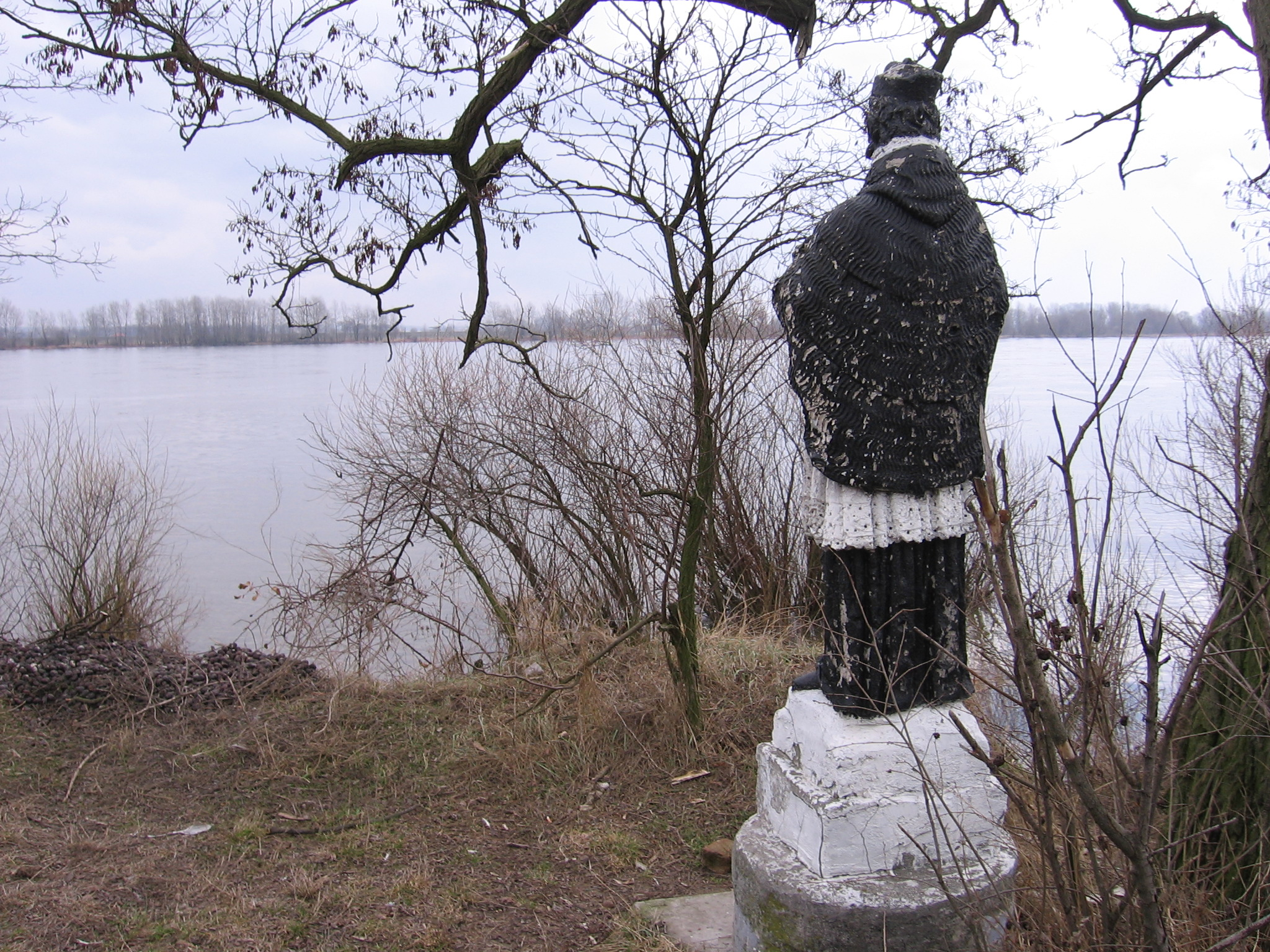 Statue of St. Johann Nepomucen in Dobrzyków